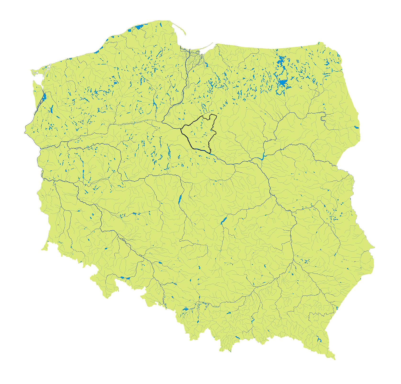 Location of ziemia dobrzynska region in Poland on hydrographic map.